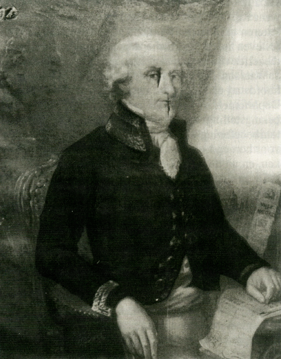 Portrait of Chrétien Coenegracht (1755-1818), maire of Maastricht from 1808-'15 during the French period. The portrait was damaged by a German soldier in 1914. Collection Sinnich Abbey, Teuven, Belgium.